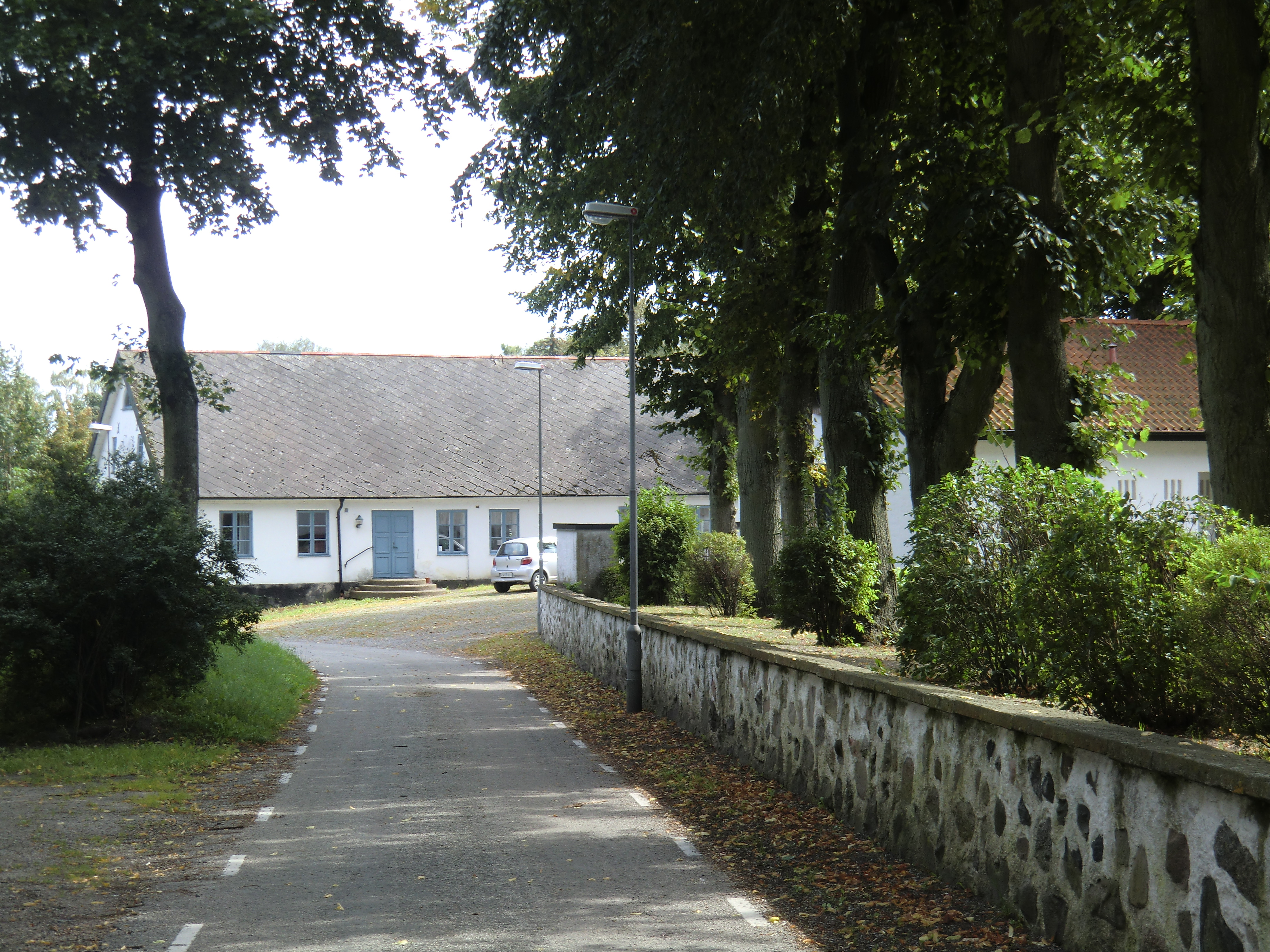 Görslöv, Staffanstorp Municipality, Scania, Sweden